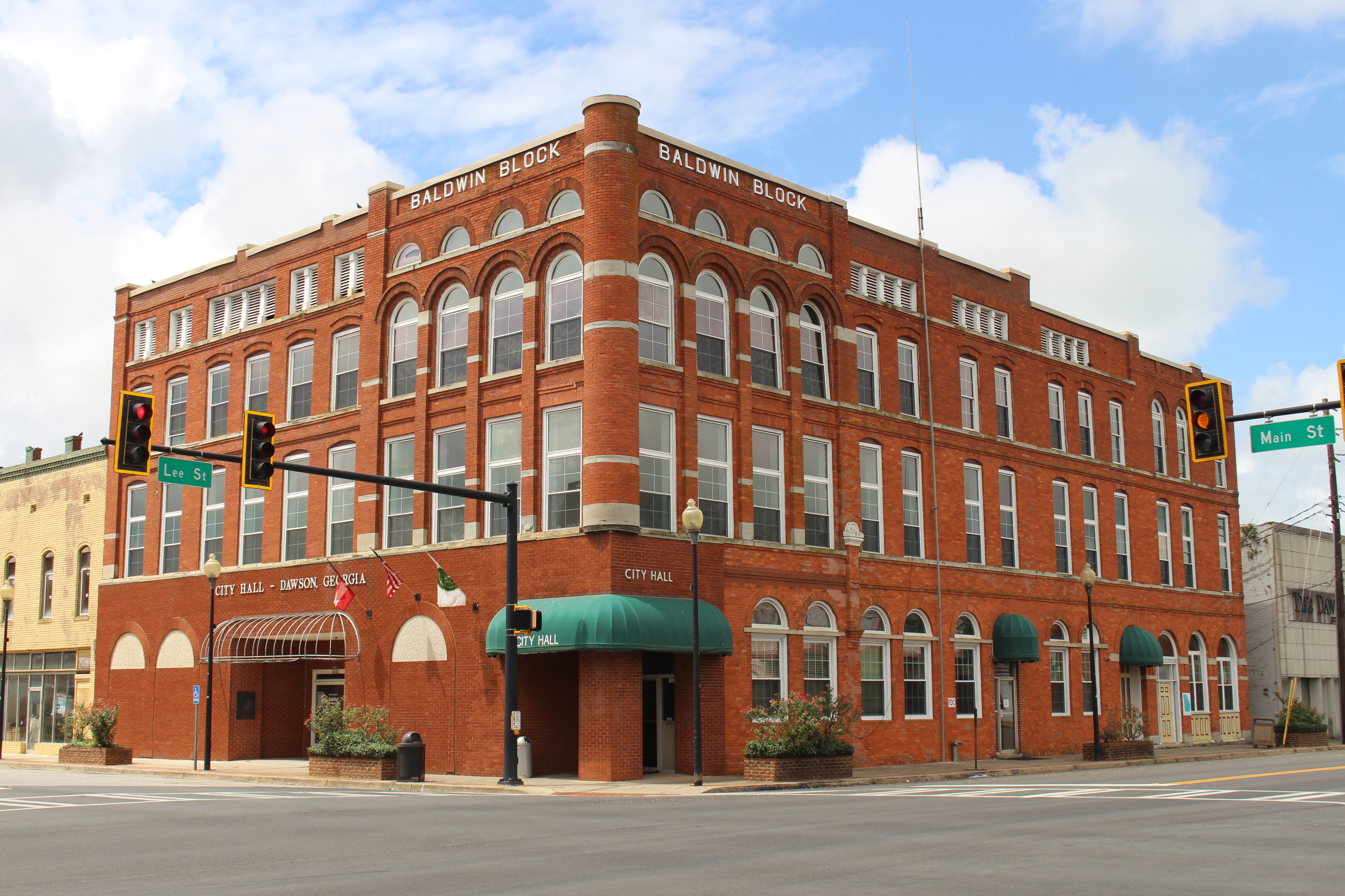 Dawson Historic District, Dawson, Terrell County, Georgia